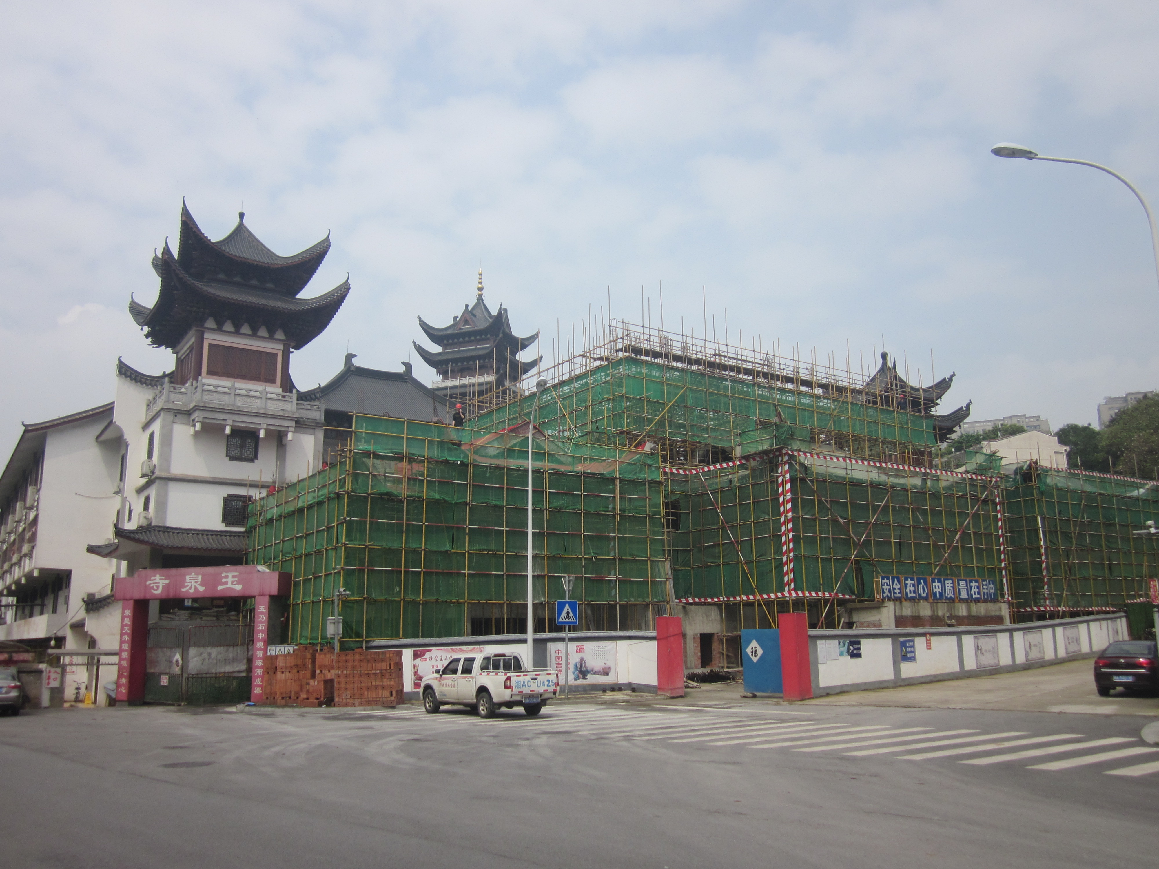 Yuquan Temple is a Buddhist temple in Tianxin District of Changsha, Hunan, China. The Shanmen is under construction.